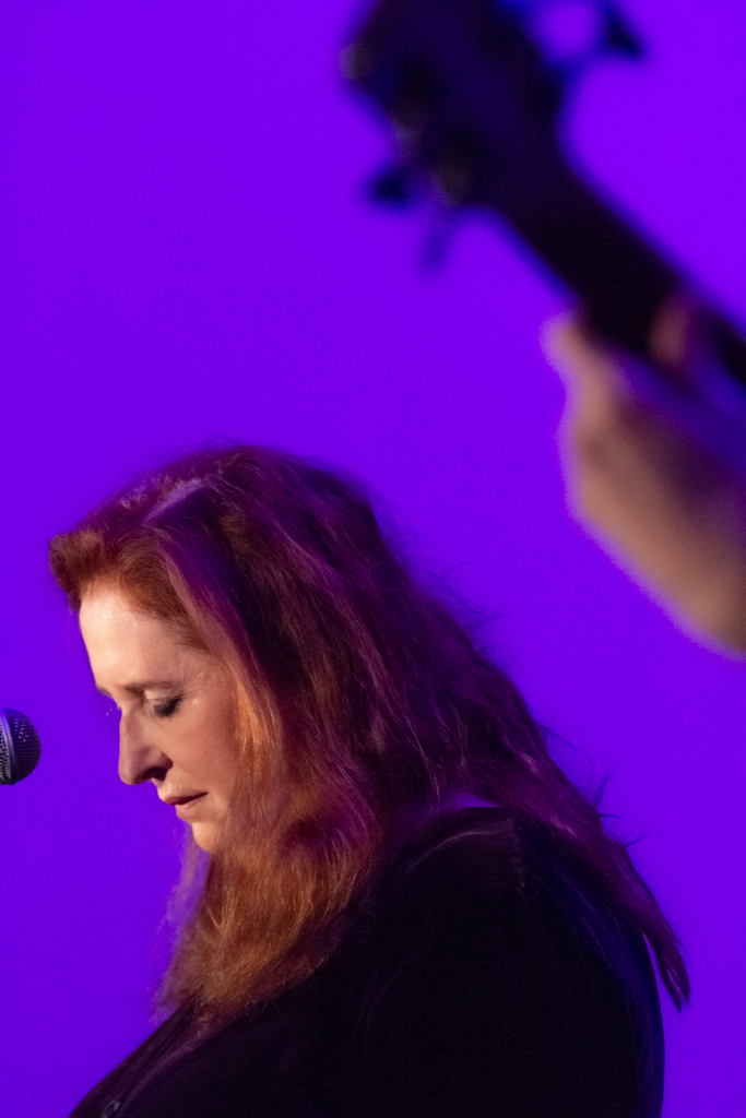 Soulful Irish genre defying singer anchored in Blues and Jazz